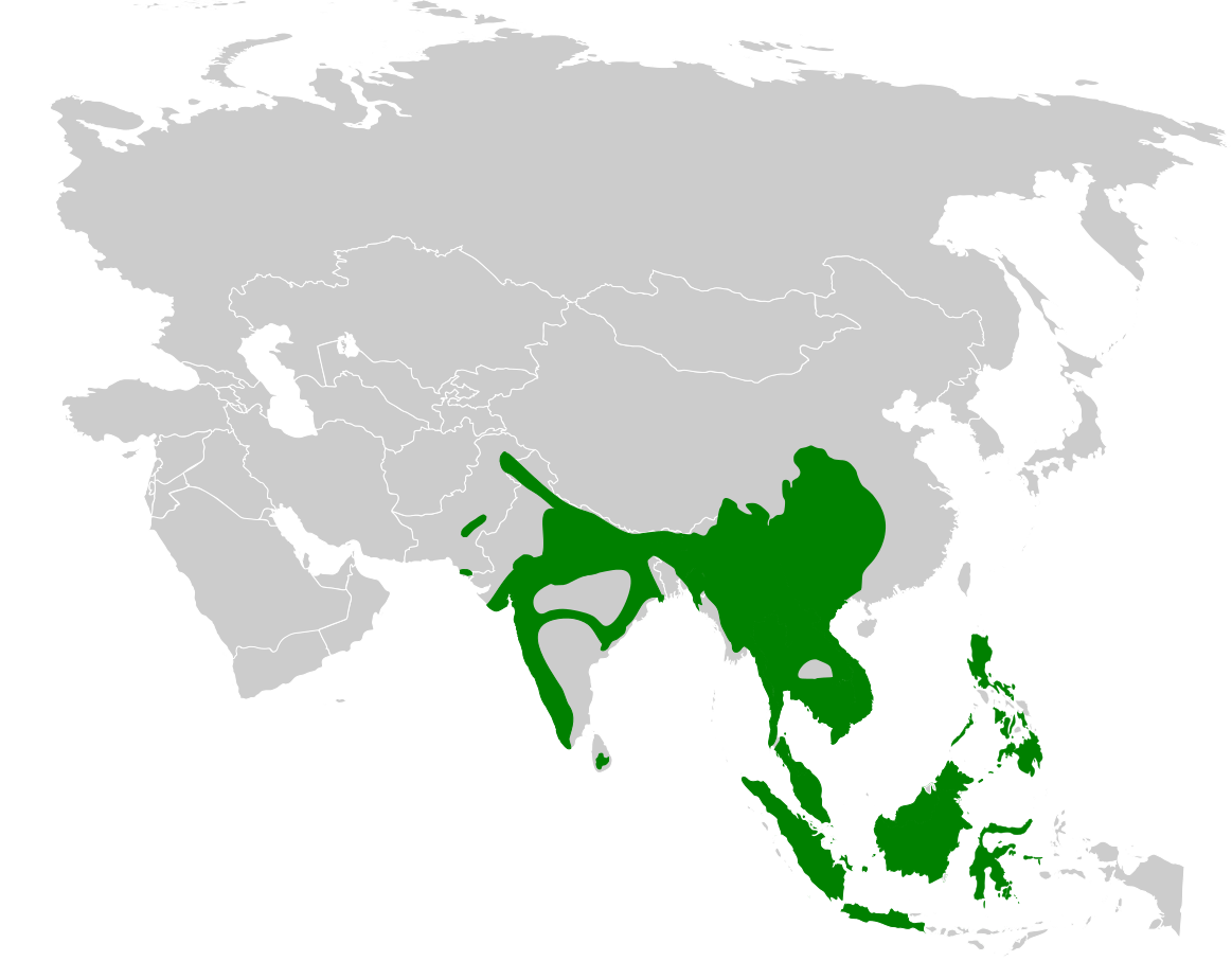 Culicicapa distribution map; using BlankMap-World6.svg, based on